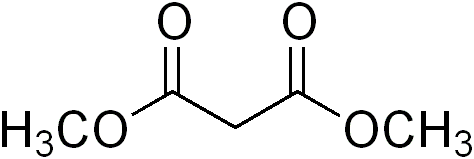 chemical structure of dimethyl malonate